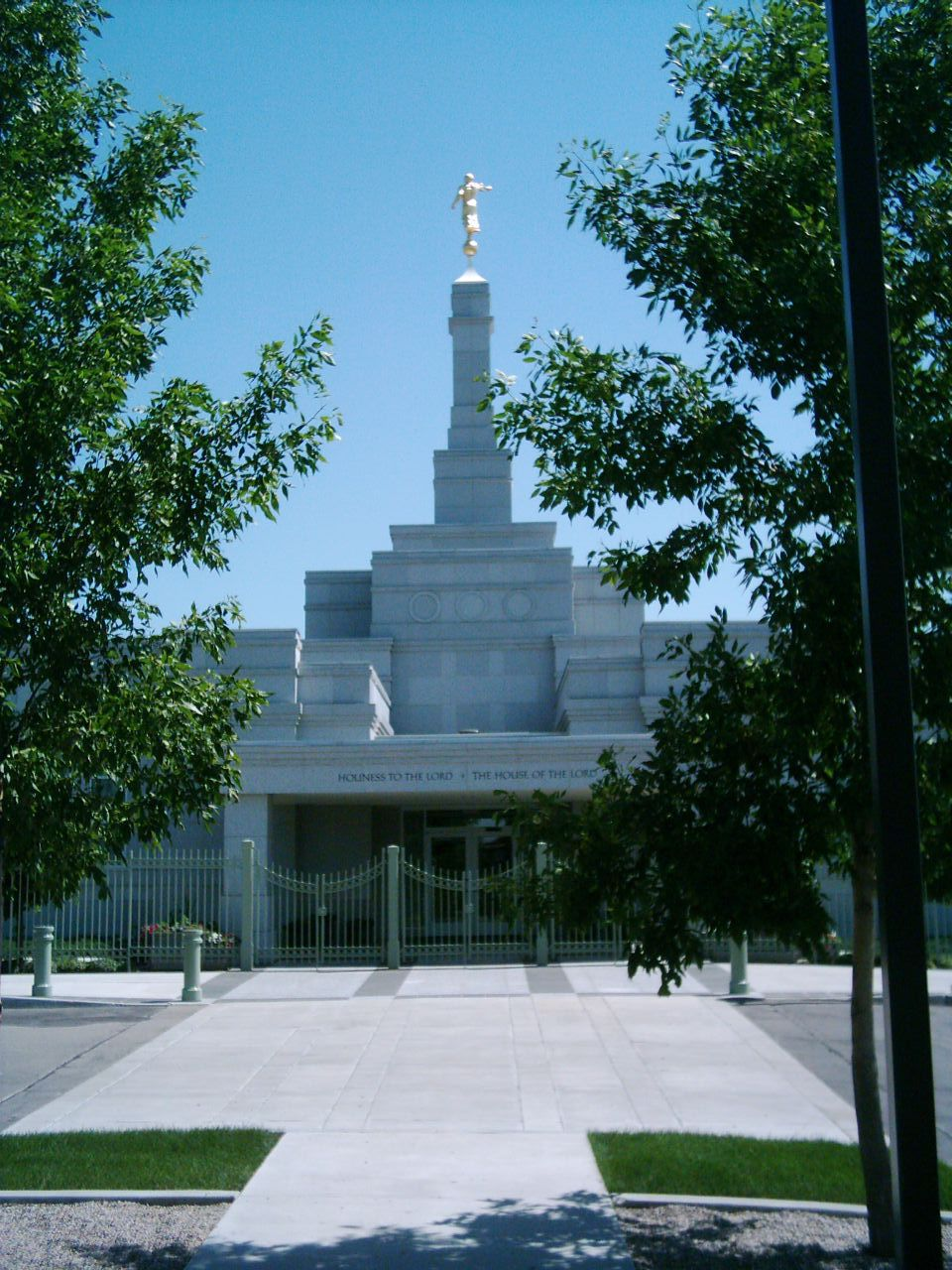 The Regina Saskatchewan Temple of The Church of Jesus Christ of Latter-day Saints.